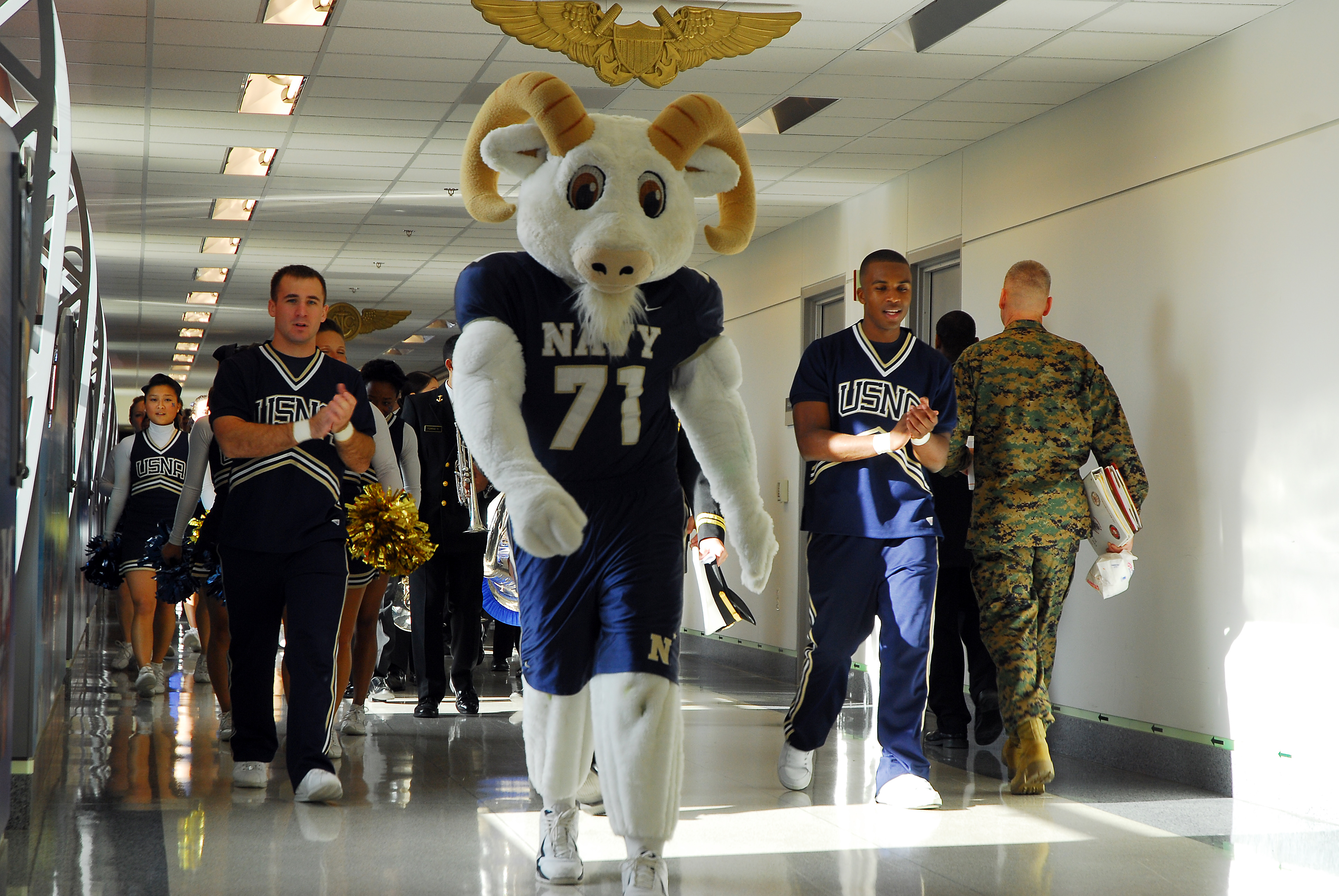 WASHINGTON (Dec. 4, 2008) Members of the U.S. Naval Academy Band parade the halls of the Pentagon in celebration of the upcoming 109th Army-Navy college football game. The teams of the U.S. Military Academy at West Point (Army) and the U.S. Naval Academy (Navy) will meet Dec. 6 in Philadelphia. (U.S. Navy photo by Mass Communication Specialist 2nd Class Sharay Bennett/Released)